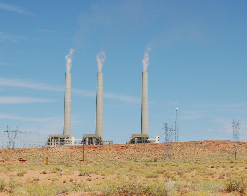 Navajo Generating Station near Page, Arizona.